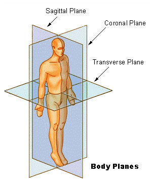 Planes of the Body